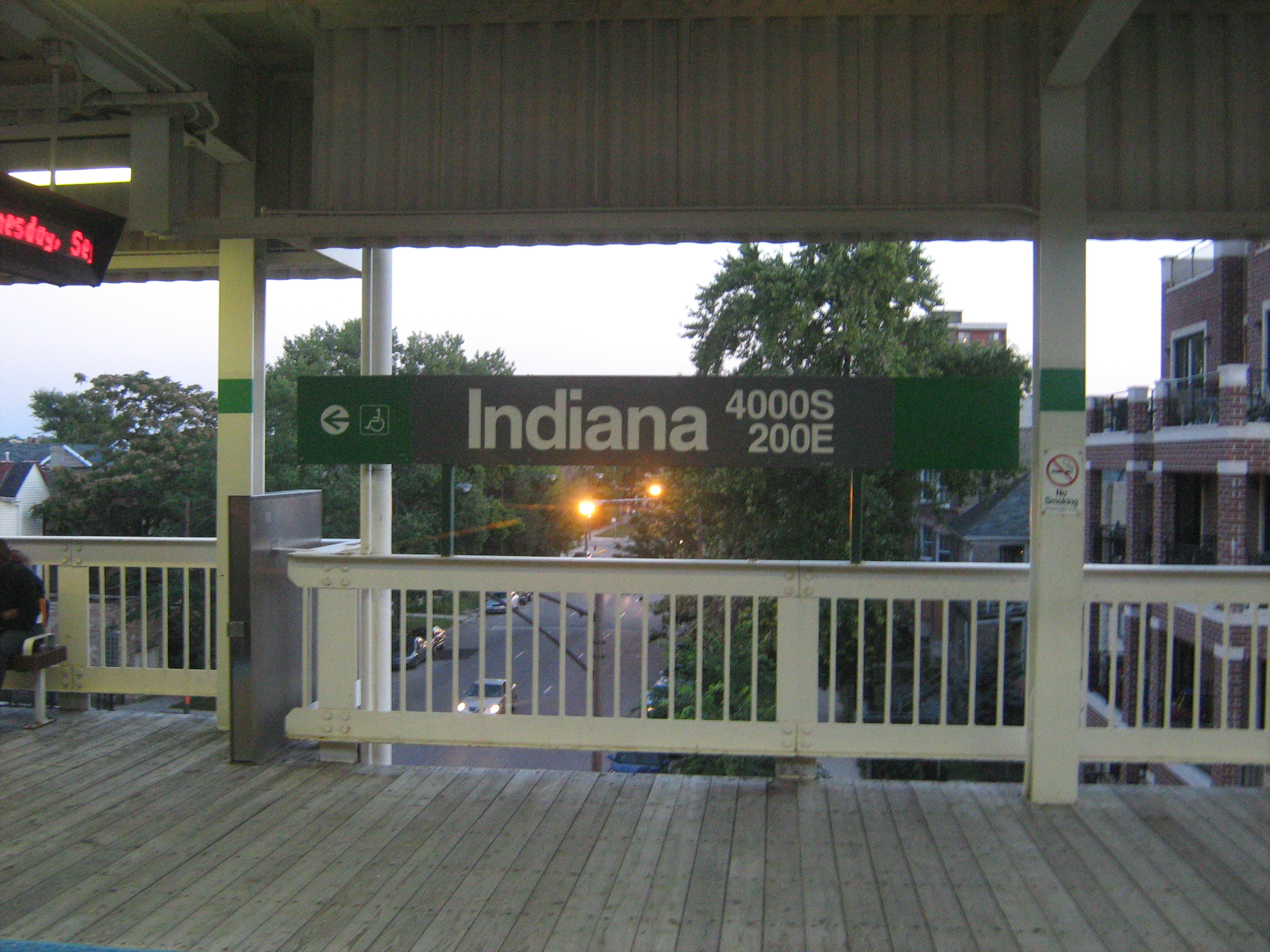 40th Street & Indiana Avenue (4000 S/200 E) 4003 S. Indiana Ave. Chicago, IL 60653 Green Line (South Side Elevated Branch)